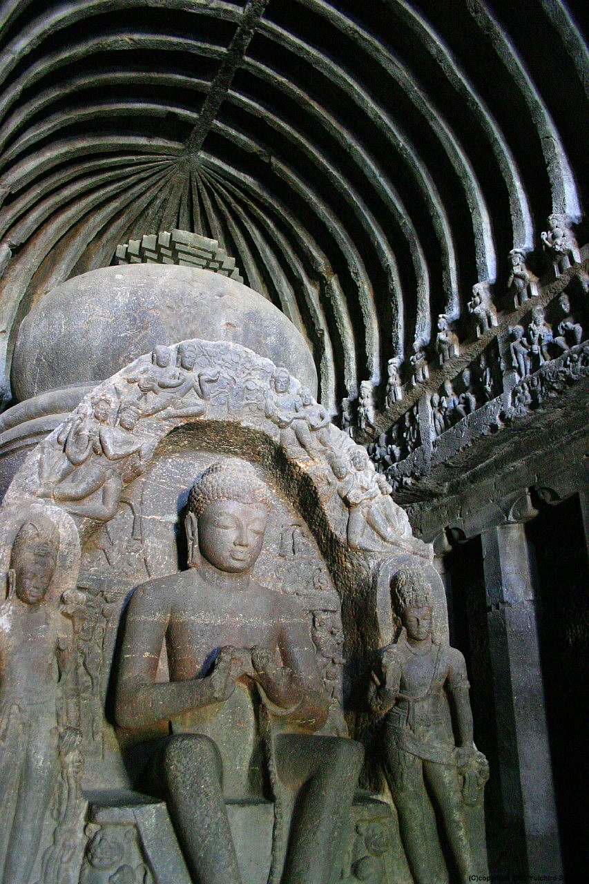 Ellora caves. Cave 10. The most famous in buddist caves.